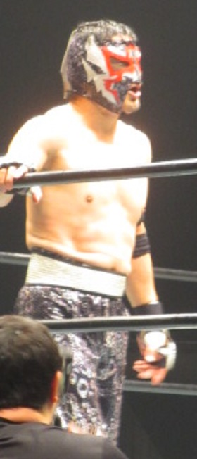 Japanese professional wrestler, Kendō Kashin. July 17 2017, BJW Ryogoku Sumo Arena.